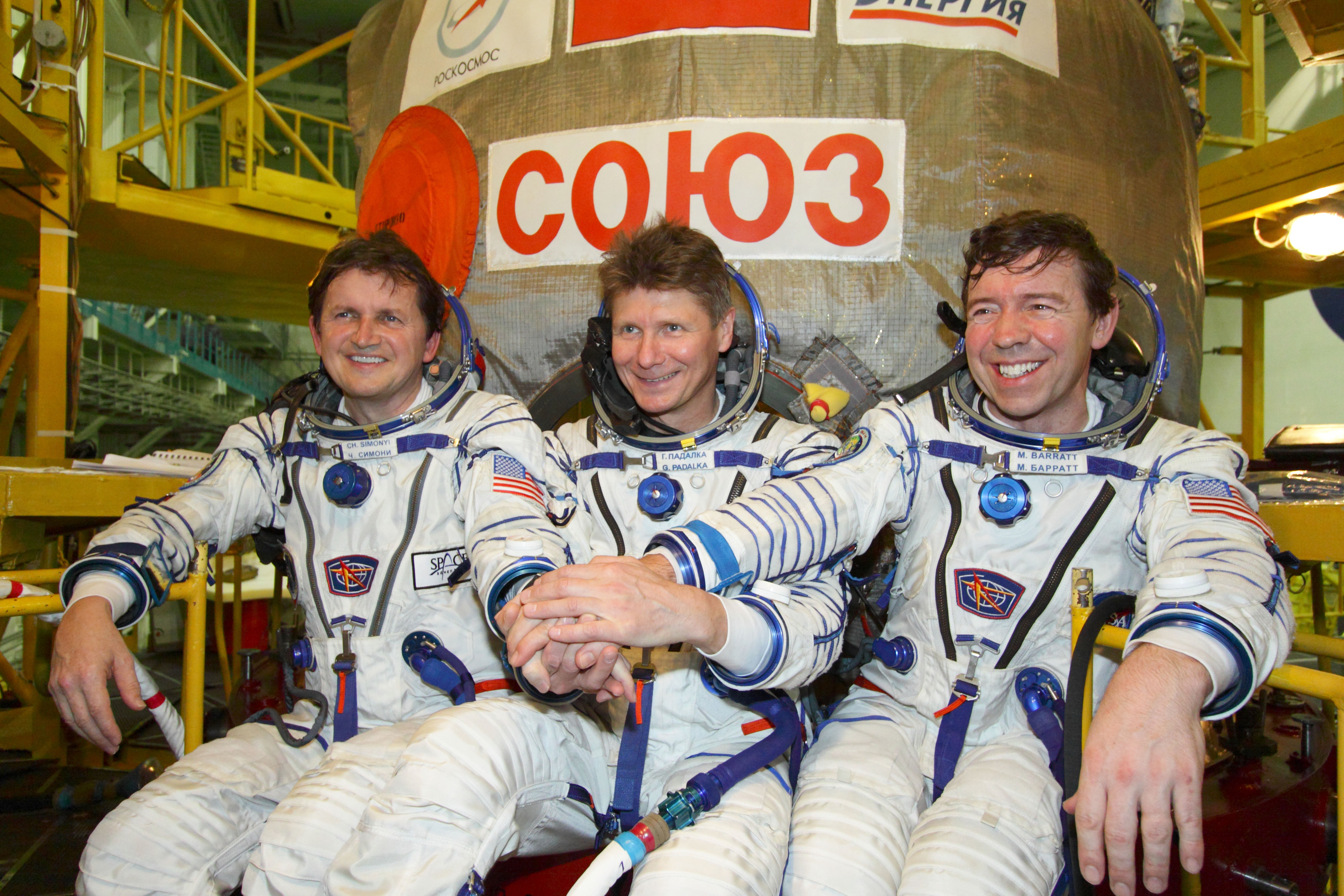 U.S. spaceflight participant Charles Simonyi (left), cosmonaut Gennady Padalka (center), Expedition 19 commander, and astronaut Michael Barratt (right), NASA Expedition 19 flight engineer, shake hands after an inspection of their Soyuz TMA-14 spacecraft March 12, 2009 in its integration facility at the Baikonur Cosmodrome in Kazakhstan. The trio were launched March 26 on a two-day trip to the International Space Station.